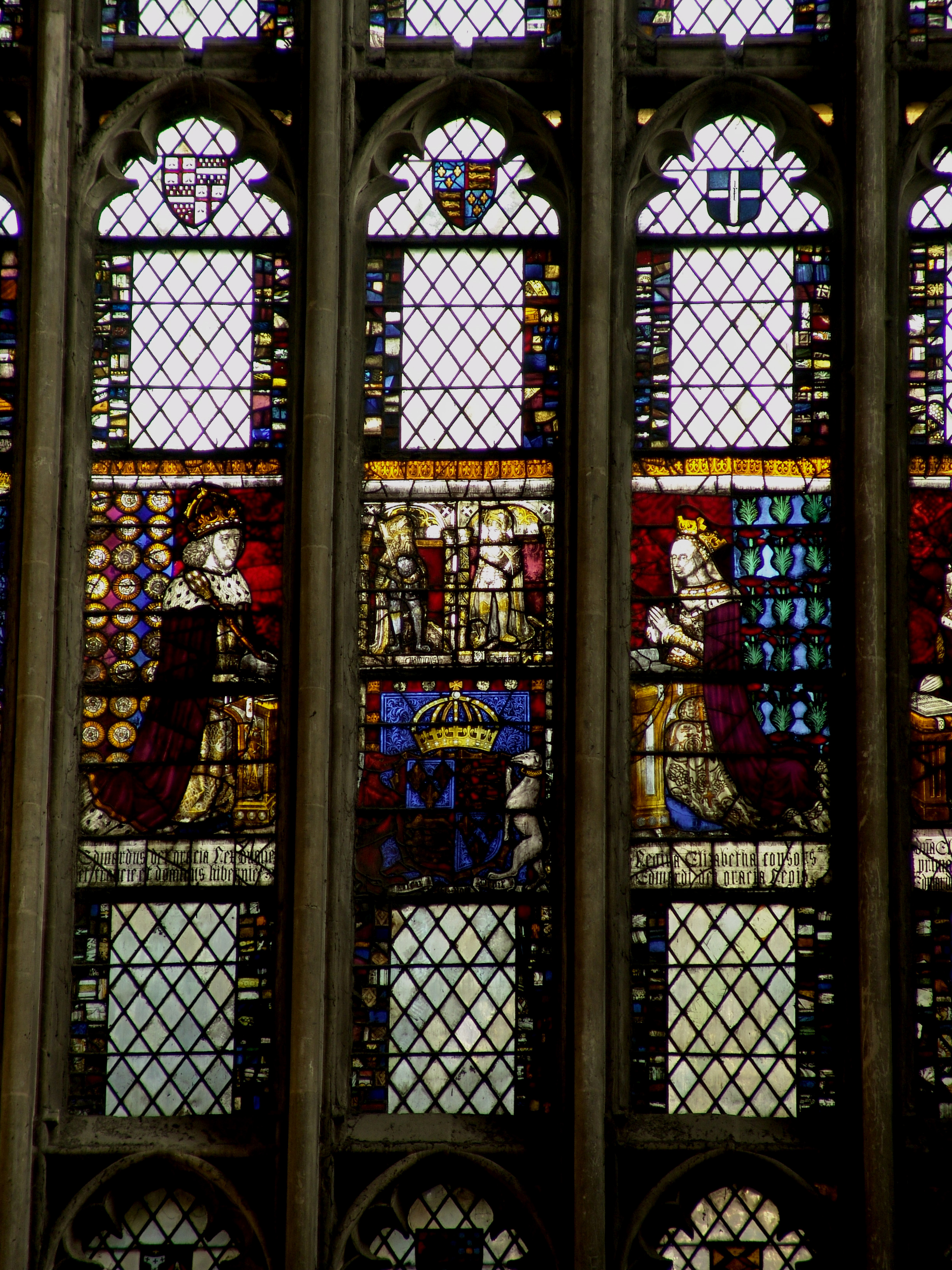 Canterbury Cathedral